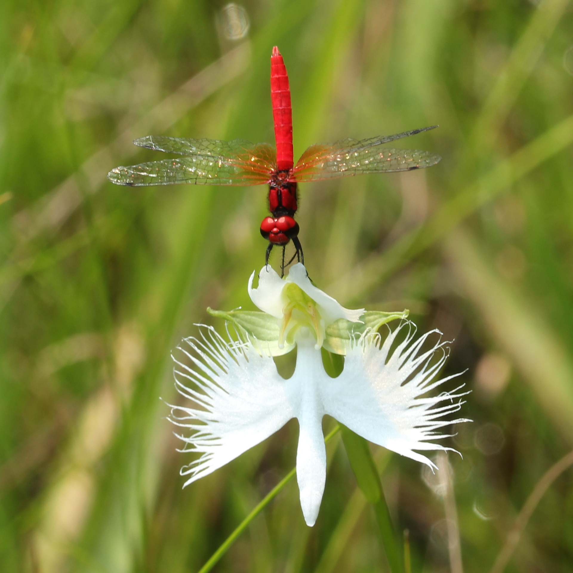 Nannophya pygmaea (Scarlet Dwarf), male on flower of Habenaria radiata in wetland of Japan.